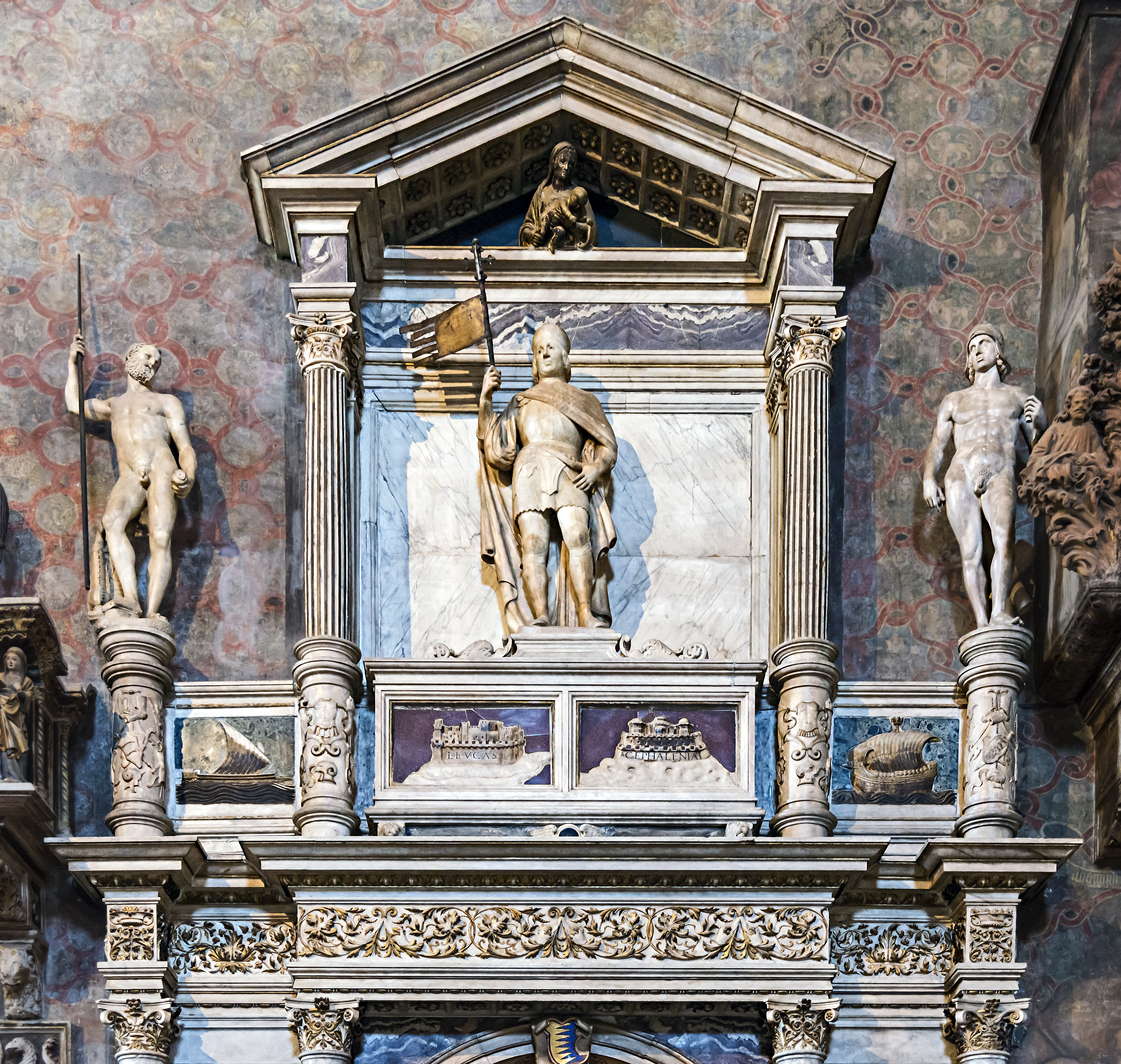 Santa Maria Gloriosa dei Frari. Monument to Benedetto Pesaro. The monument surrounds the access port to the sacristy. Fleet Captain, who died in Corfu in 1503. The monument was made by Lorenzo and Giambattista Bregno, at the request of Gerolamo Pesaro.